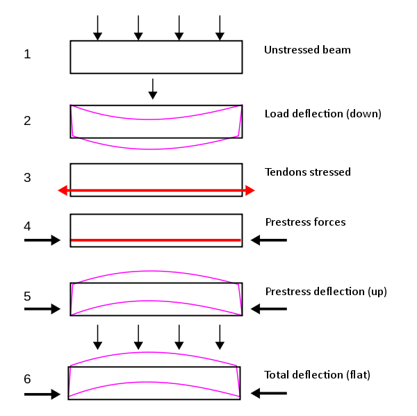 Prestressed concrete diagram (with English notation)